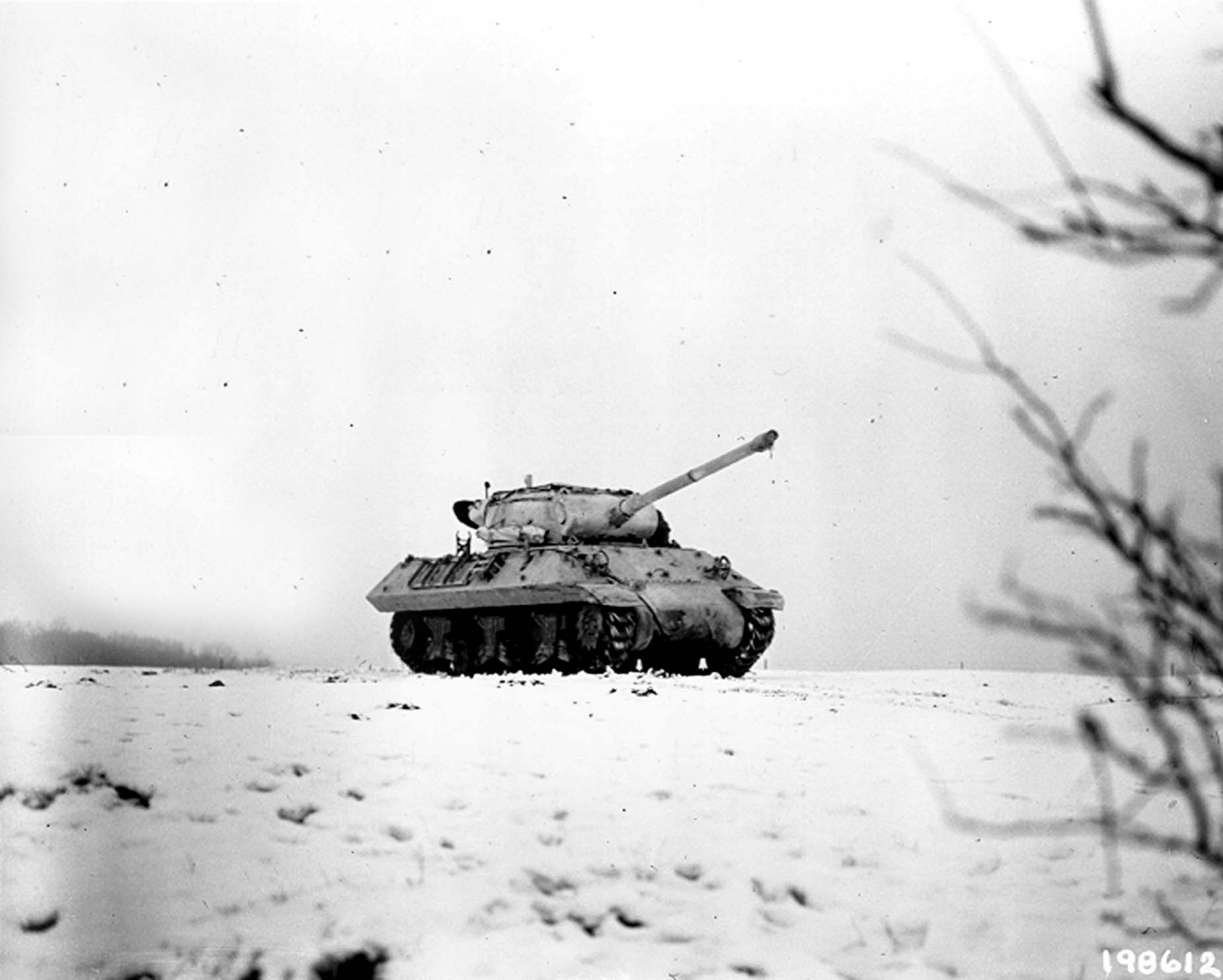 Battle of the bulge - Dudelange, Luxembourg. Painted white to blend with snow-covered terrain, an M-36 tank destroyer crosses a field. (3 Jan 1945)